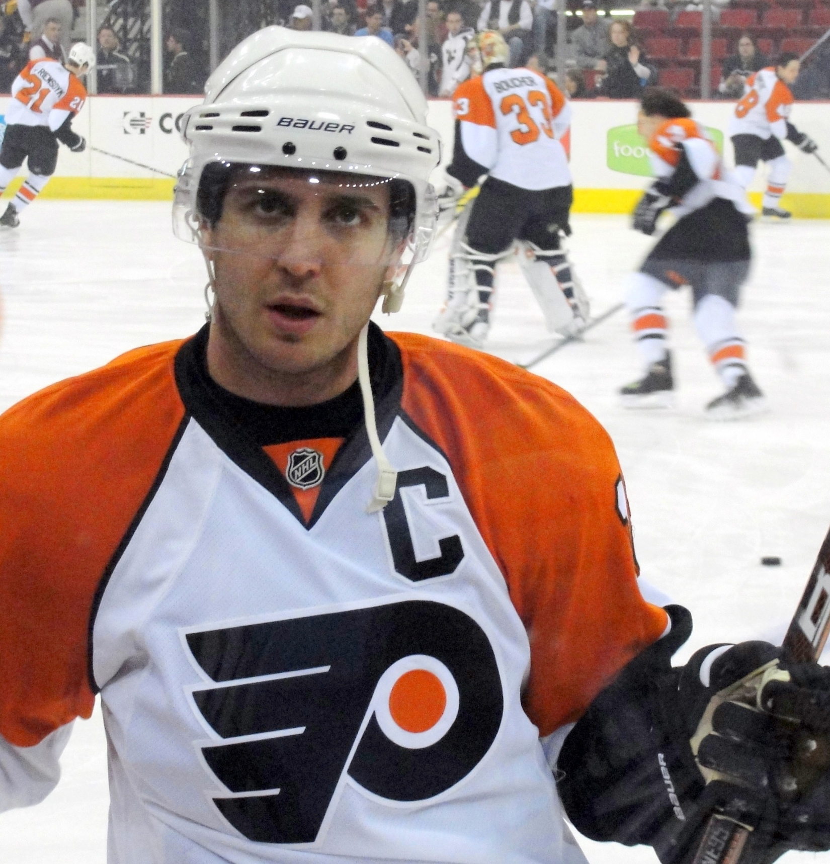 Philadelphia Flyers forward Mike Richards prepares to warm up before a March 27, 2010 game against the Pittsburgh Penguins at Mellon Arena in Pittsburgh, PA.